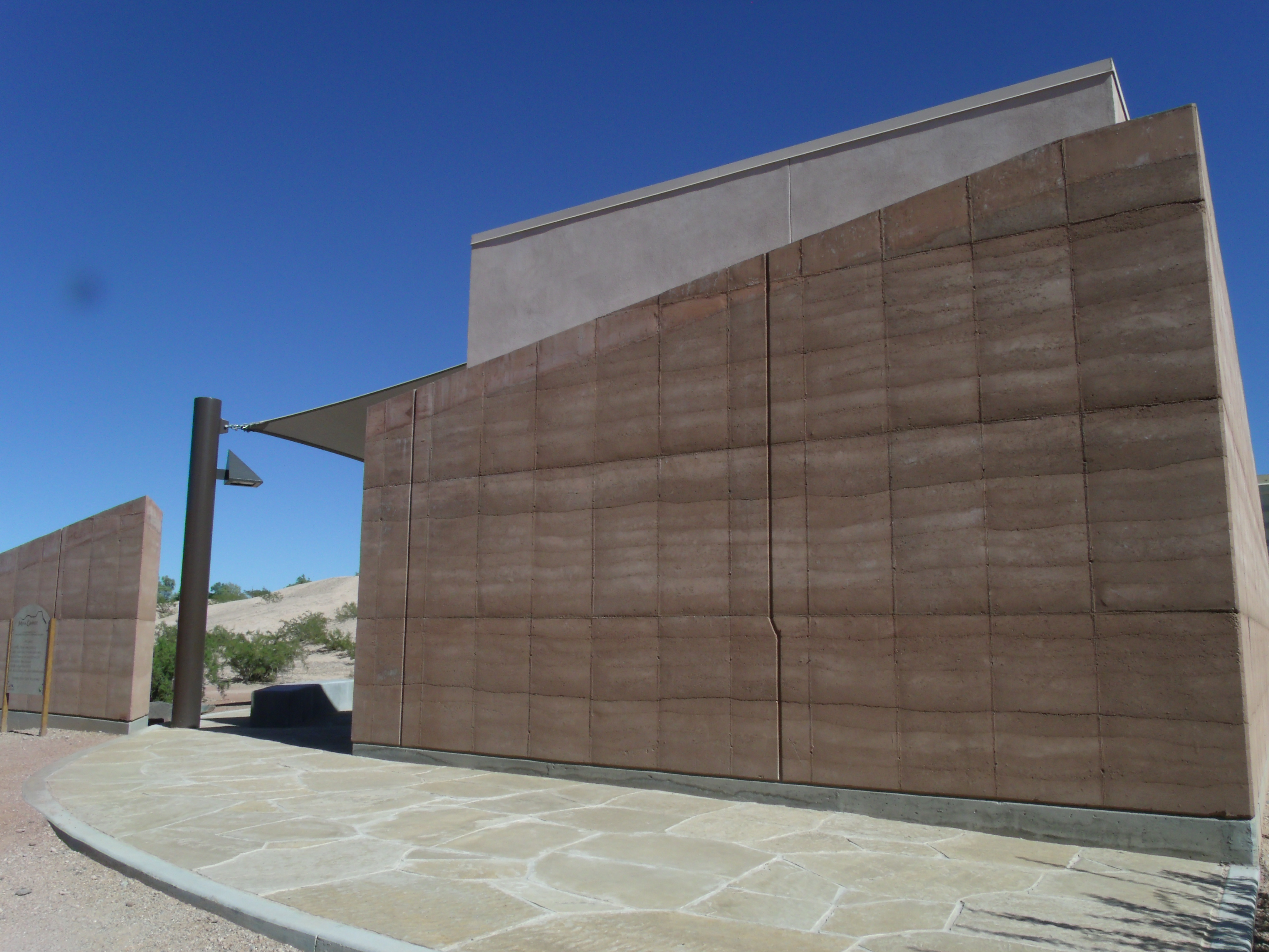 Entrance of the Mesa Grande Cultural Park which is located at 1000 N. Date St. The park contains the ruins of the Mesa Grande Hohokam Village. It was listed in the National Register of Historic Places in November 21, 1978, reference number 78000549.